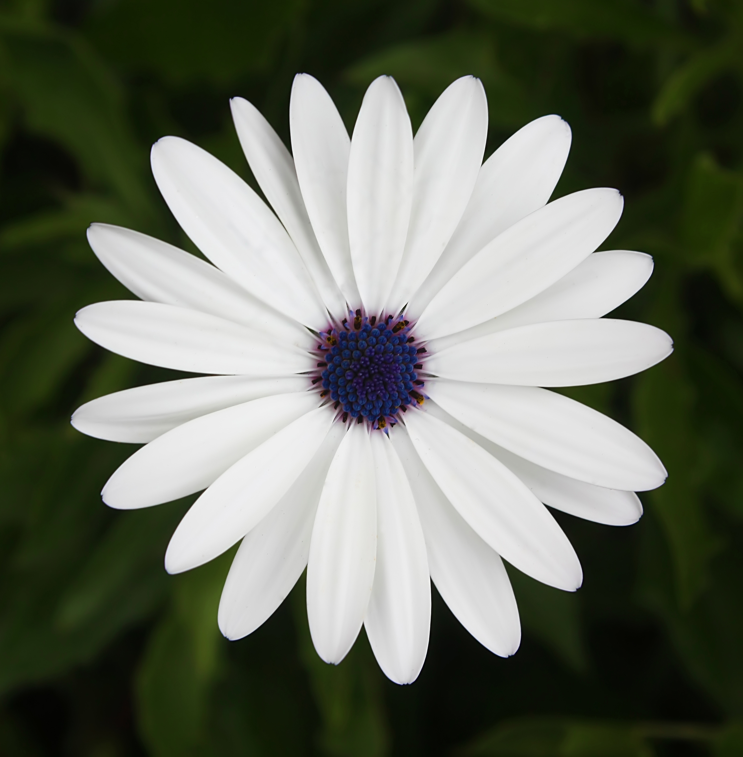 White Cape Daisy (Osteospermum barberiae) flower in Galway's Land National Park, Nuwara Eliya, Sri Lanka. It is about 9 cm diameter.